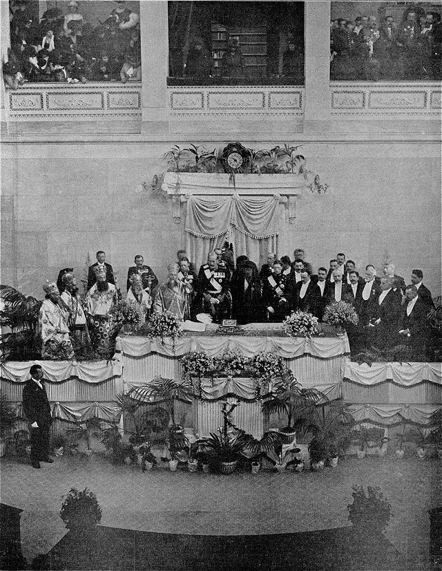 Swearing-in ceremony of King Constantine I of Greece before the Greek Parliament, 1913